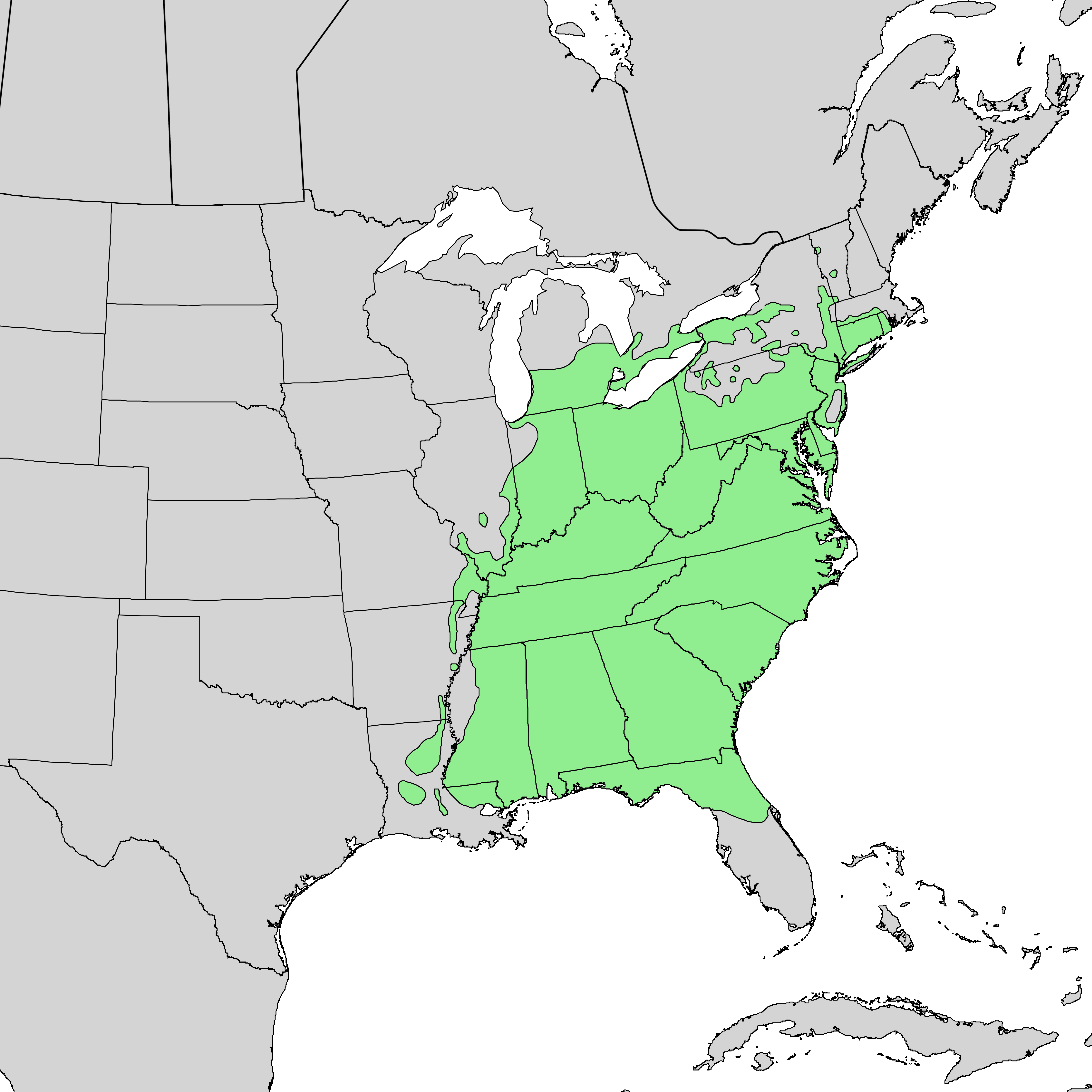 Natural distribution map for Liriodendron tulipifera (tulip poplar)